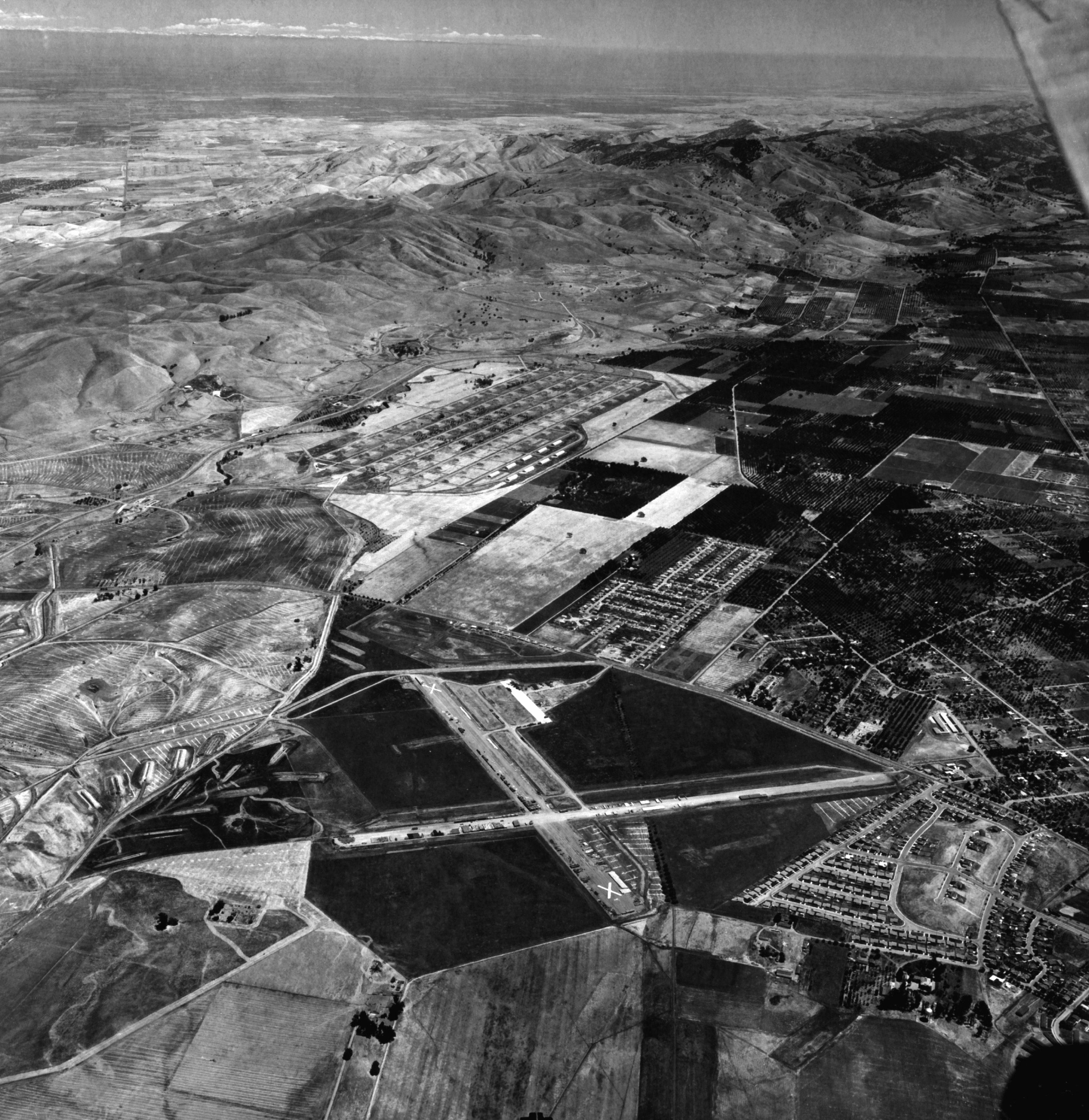 Aerial oblique view of the U.S. naval magazine, inland area, Port Chicago, California (USA), on 25 May 1951, lens 8¼ in, altitude 1,500 m (5,000 ft.), looking east.